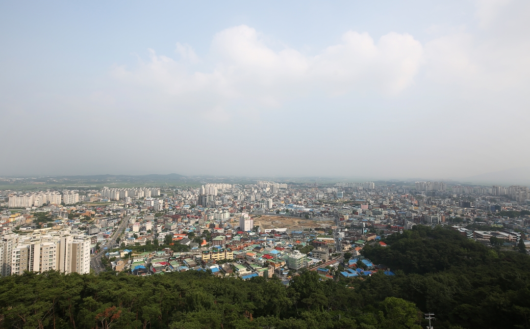 The landscape of Seosan City